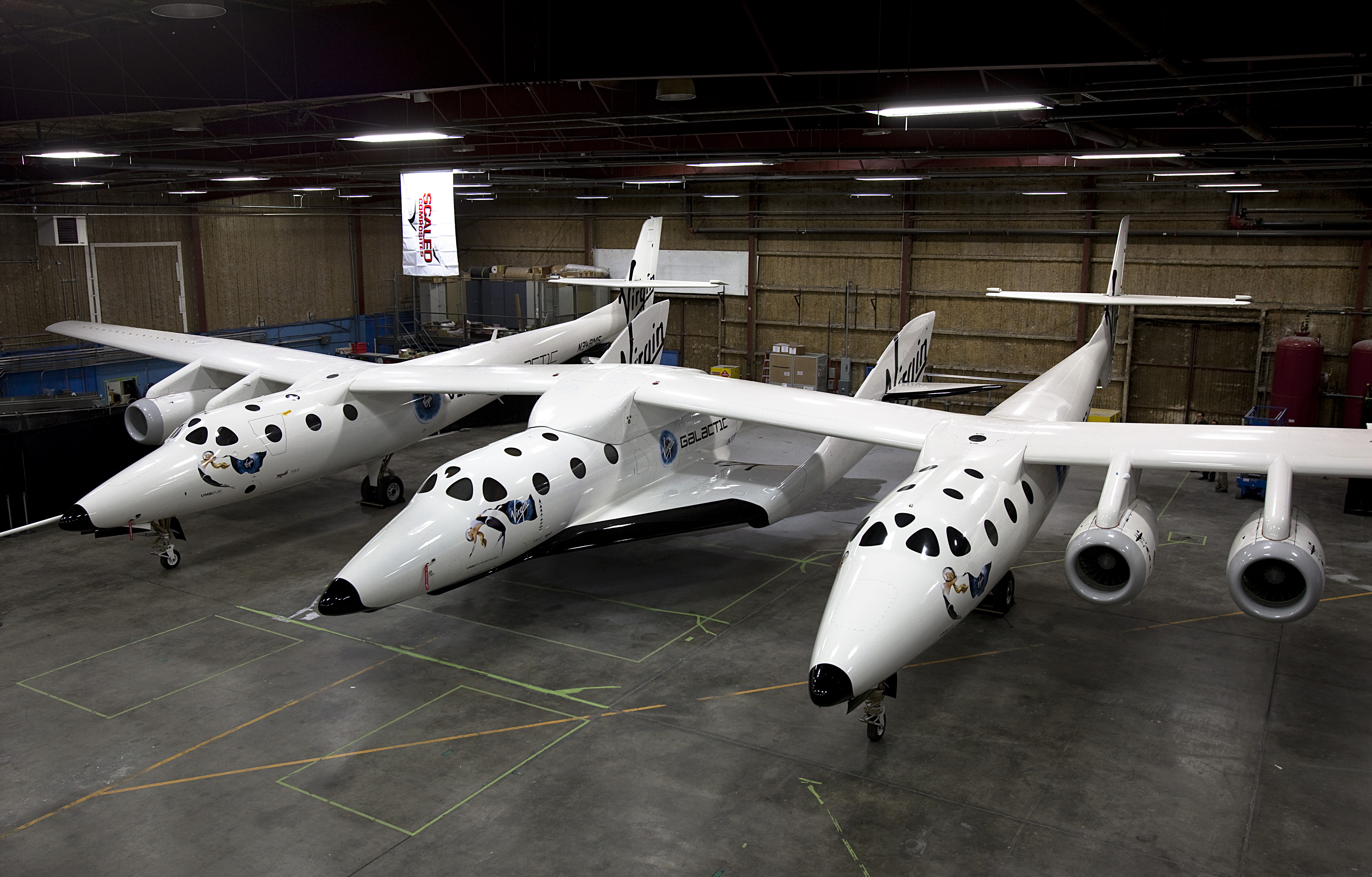 The Scaled Composites SpaceShipTwo spaceplane (central fuselage) resting under its mothership, White Knight Two, inside a hangar in Mojave, Ca., USA.